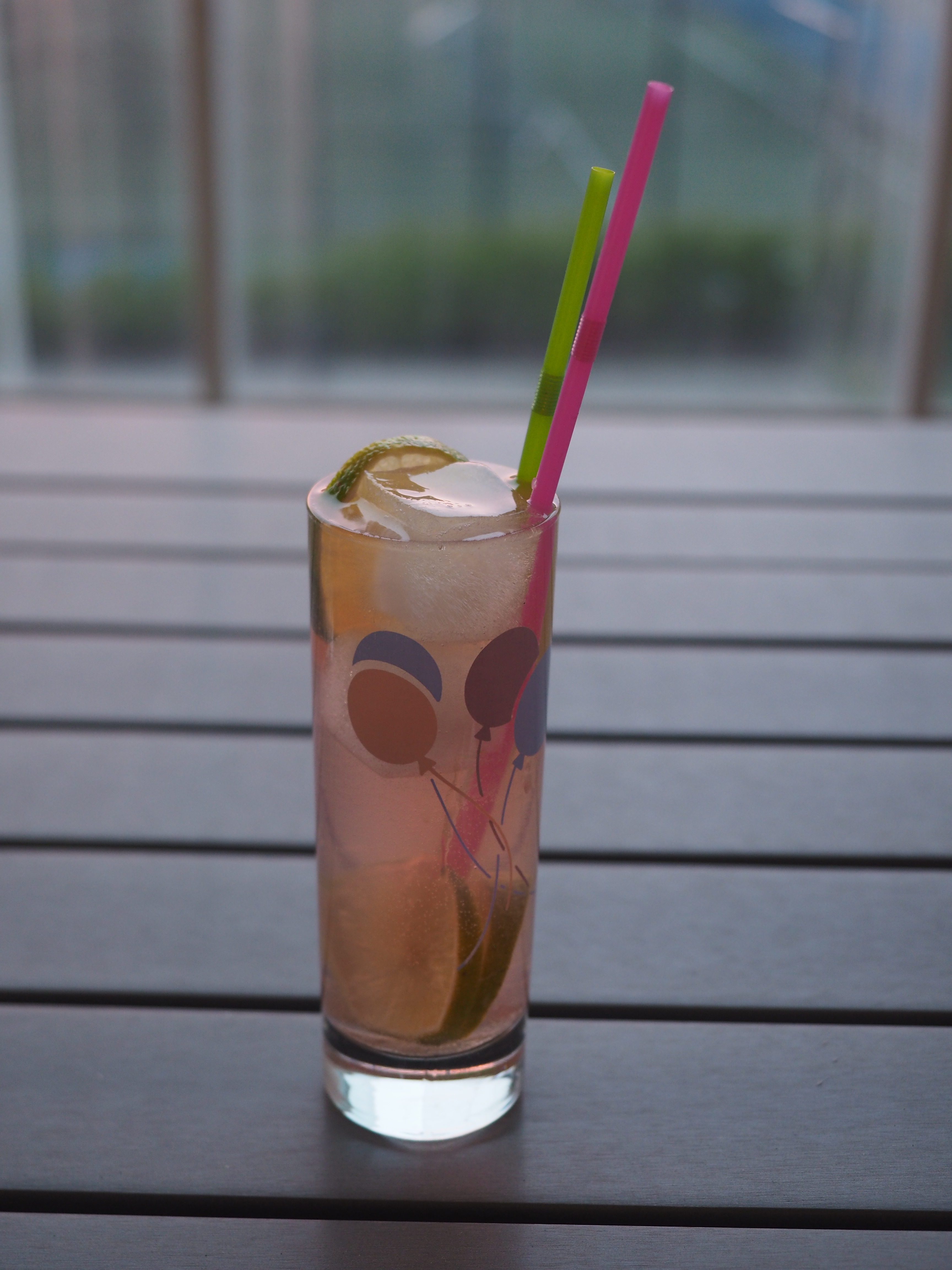 A glass of gin and tonic made from Estonian Crafter's Aromatic Flower Gin, at an apartment balcony.